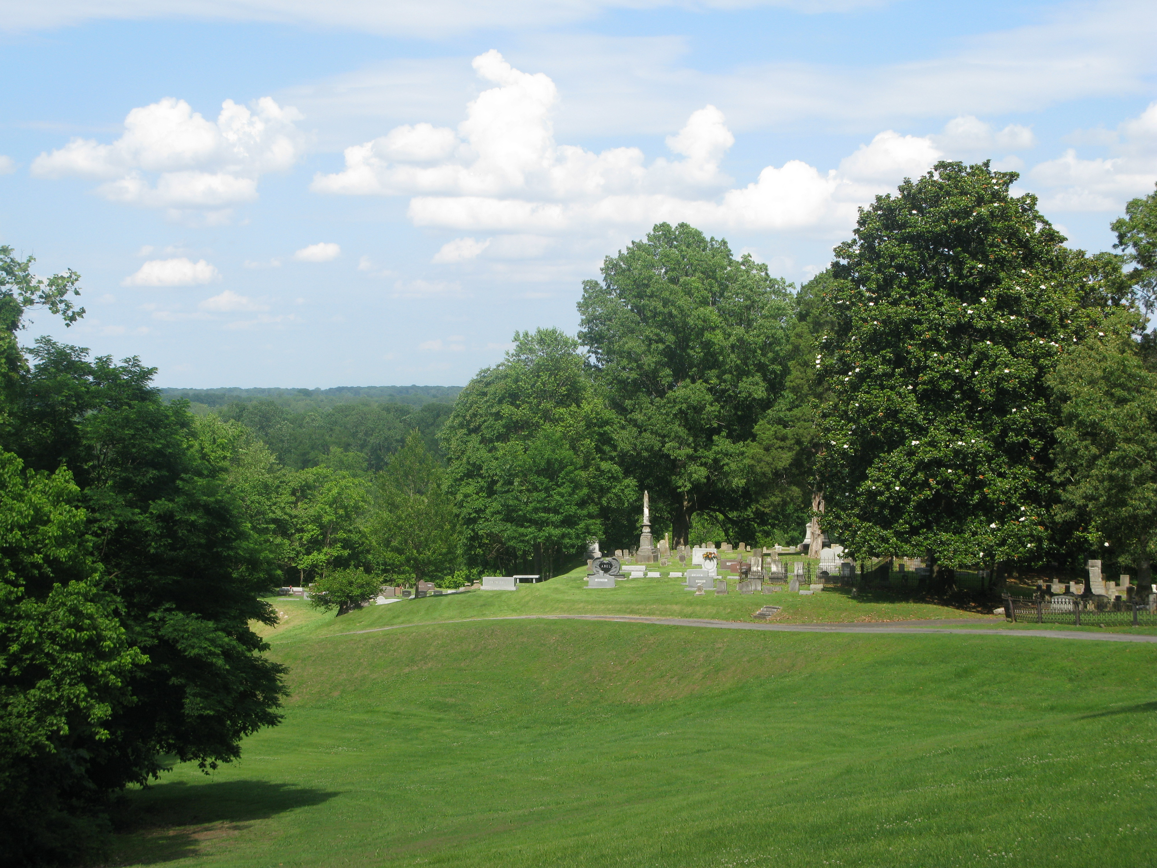 The view from the Confederate Cemetery in Helena-West Helena, Arkansas.